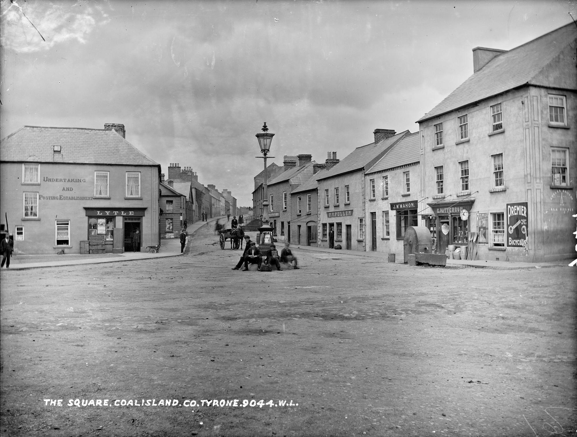 I am weary of Dublin/Cork photographs, and so today I made an executive decision to go up to the "Wee North" today :) This fine Royal plate showing the Square (not the Diamond mind you) in Coalisland. It may bring a breath of fresh air to those tired of city life! EXPLORE KLAXON - BAWAAAAAAH - Our photograph of De Valera in Grand Parade yesterday was our 100th Explore entry. This is a remarkable number and is entirely due to the community who do all the work on this stream. Congratualtions one and all! Coming back to the "Wee North", among other contributions and contributors, [/photos/bernardhealy/ Bernard Healy]'s census investigations suggest that this image is possibly after the 1901 census. But perhaps before the 1911 census. The lower bound is suggested because the Fullen family (of the "F.V. Fullen" signage we see) may have been living elsewhere nearby during the 1901 census. The upper bound is suggested because (while the Fullens were almost certainly "here" by 1911) some of the other businesses pictured were gone or had moved by then.... Photographer: Robert French Collection: Lawrence Photograph Collection Date: Catalogue range c.1865-1914. Possibly c.1901-1911 NLI Ref: L_ROY_09044 You can also view this image, and many thousands of others, on the NLI’s catalogue at